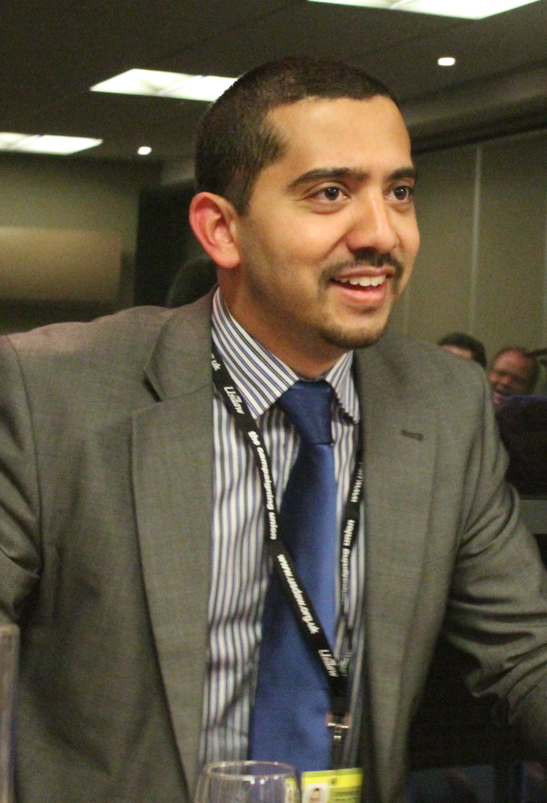 Mehdi Hasan